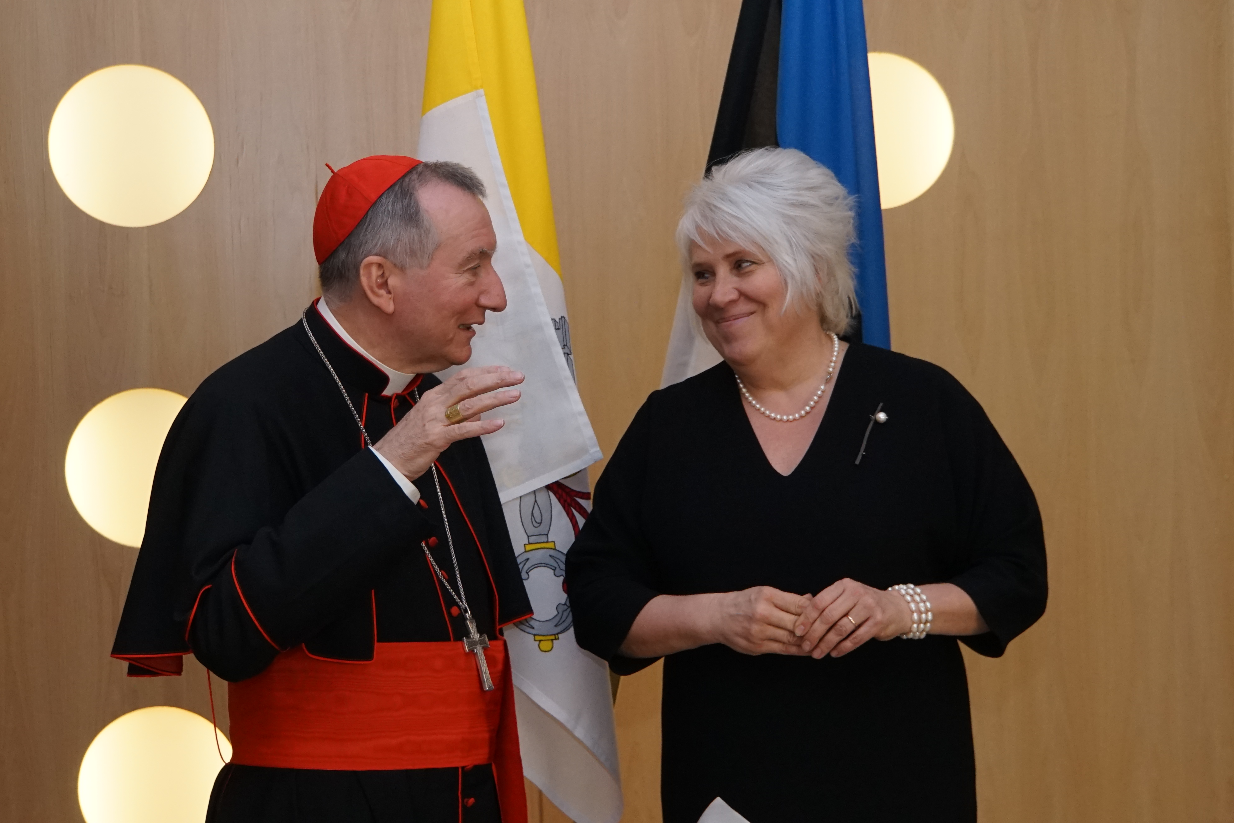 FM Marina Kaljurand met with His Eminence Cardinal Pietro Parolin, Secretary of State of the Holy See. (10.05.2016)